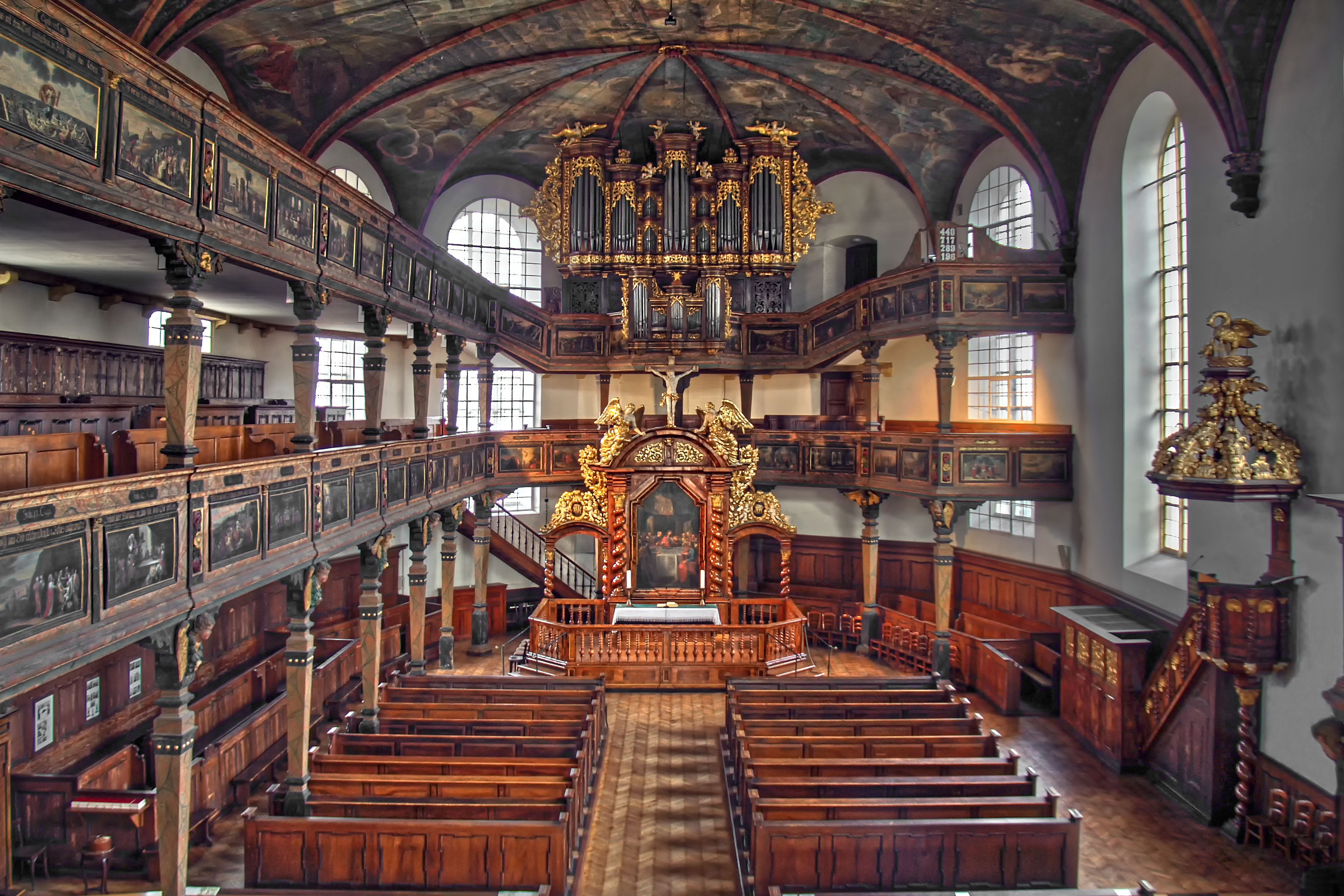 Interior of the Trinity Church in Speyer. View from the first gallery to altar and organ.